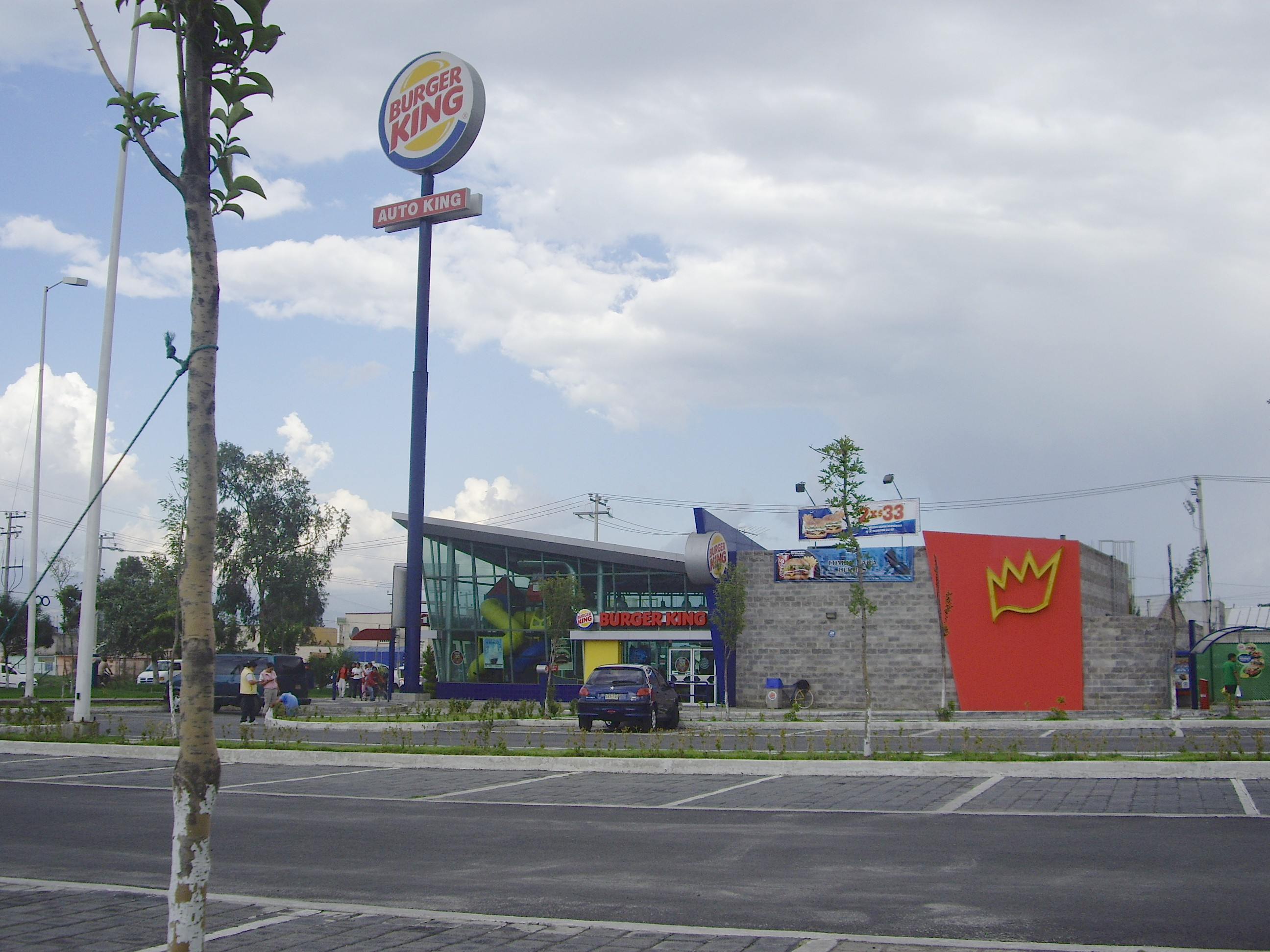 Burger King restaurant building in Chalco, Mexico City. Taken from a parking lot.